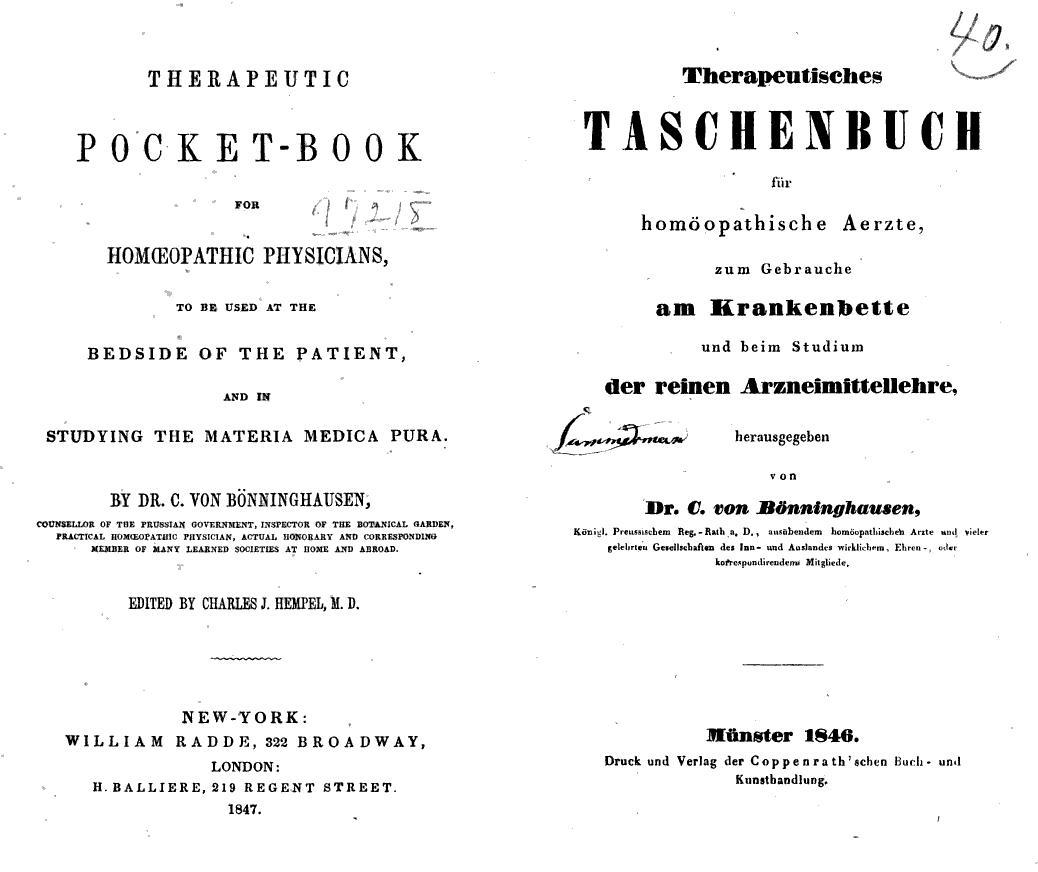 Title page of the English and German version of his published work The Therapeutic Pocketbook.